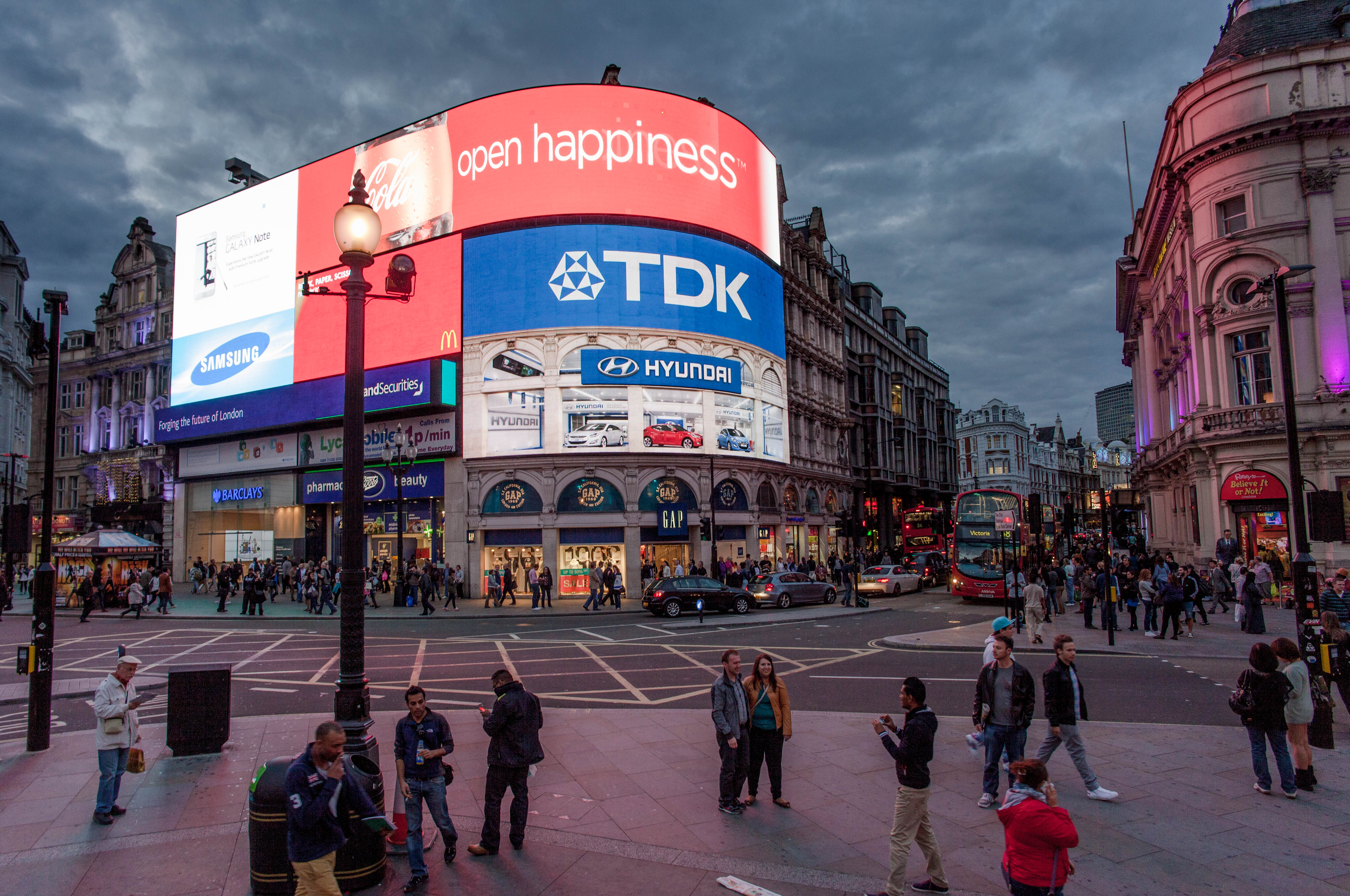 Coca-Cola has had a sign at Piccadilly Circus since 1956. Hyundai Motors sign is the newest of the six, launching on 29 September 2011. It replaced a sign for Sanyo which had occupied the space unchanged since 1987, the last to be run by traditional neon lights rather than Hyundai's computerised LED screen. Earlier Sanyo signs with older logos had occupied the position since 1978, although these were only half the size of the current space. TDK added its sign in 1990, the space having been previously used by Schweppes (1920-61), BP (1961-7), Cinzano (1967-78), Fujifilm (1978-86) and Kodak (1986-90). The original neon sign remained almost unchanged for twenty years, although in 2001, the colour of the background lamps was changed from green to blue, and the words "Audio & Video Tape" and "Floppy Disks" under the TDK logo were removed. In 2010, the sign was replaced by an LED screen. McDonald's added its sign in 1987, replacing one for BASF. The sign was changed from neon to LED in 2001. A bigger, brighter screen was installed in 2008. Samsung added its sign in November 1994, the space having been previously occupied by Canon (1978-84) and Panasonic (1984-94). The sign was changed from neon to LED in summer 2005. The screen was upgraded and improved in autumn 2011. Ref: GPS geotags: Shaftesbury Avenue, A401, Chinatown, London, City of Westminster, England, UK Camera: Canon EOS 5D Mark II Lens: Voigtlander Color Skopar 20mm f/3.5 SL-II Aspherical Manual Focus Lens 3 ISO: 320 Published: , page 52 .